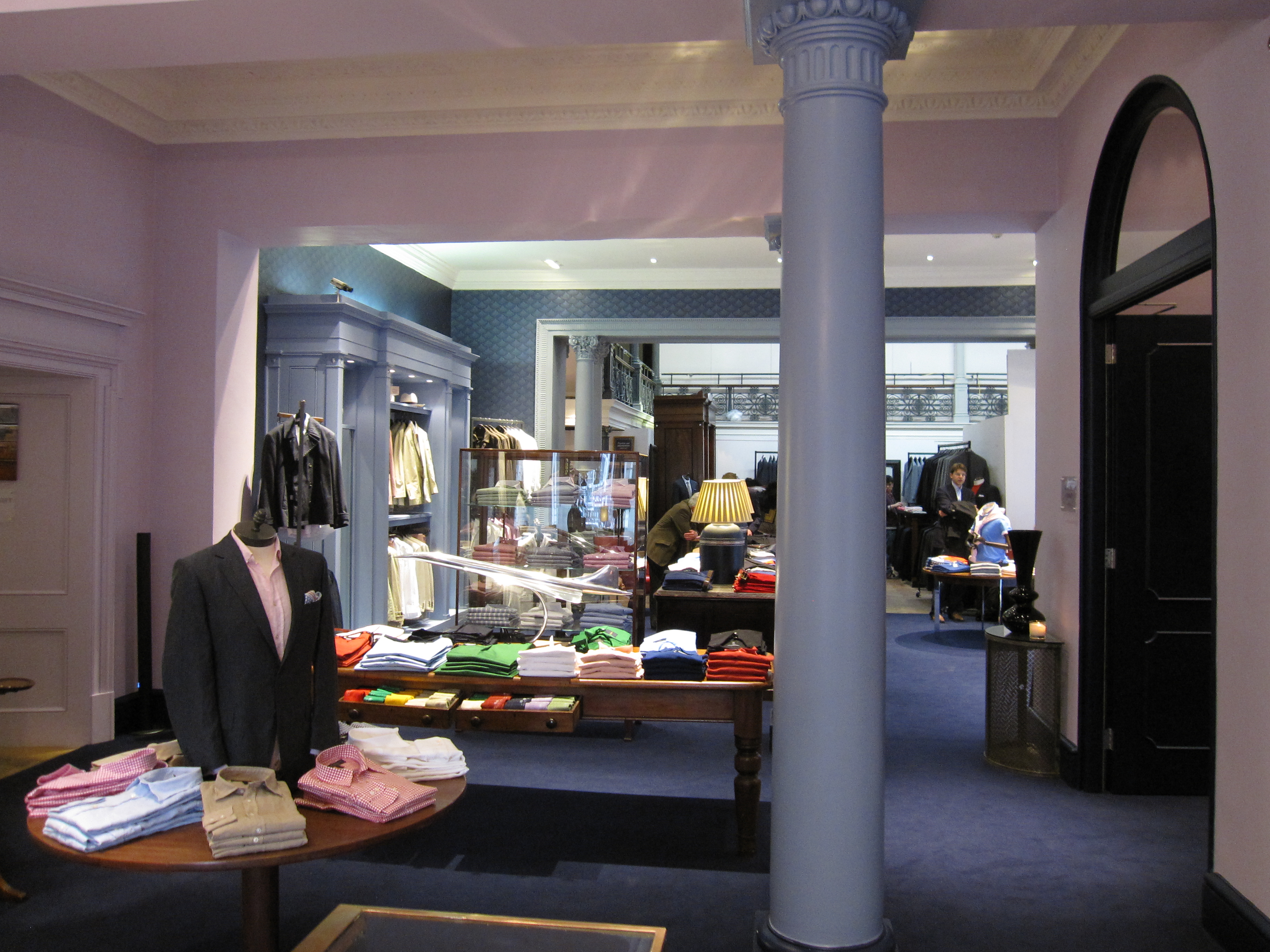 Interior of Gieves & Hawkes on №1 Savile Row in London.